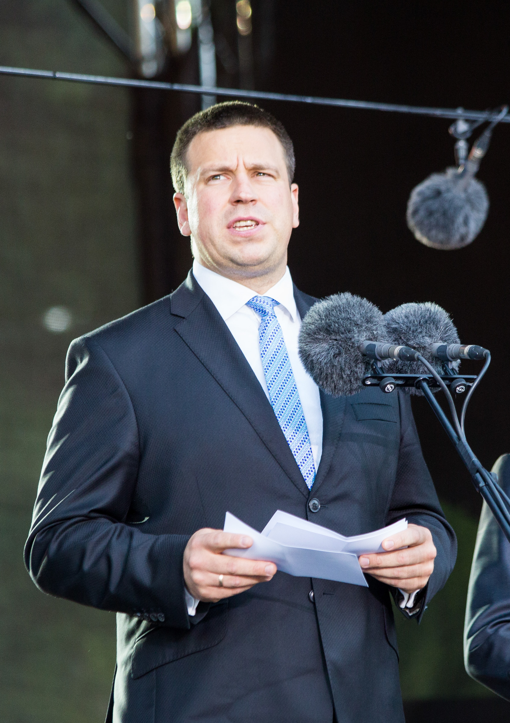 Prime Minister Jüri Ratas greeting the crowds in Tallinn